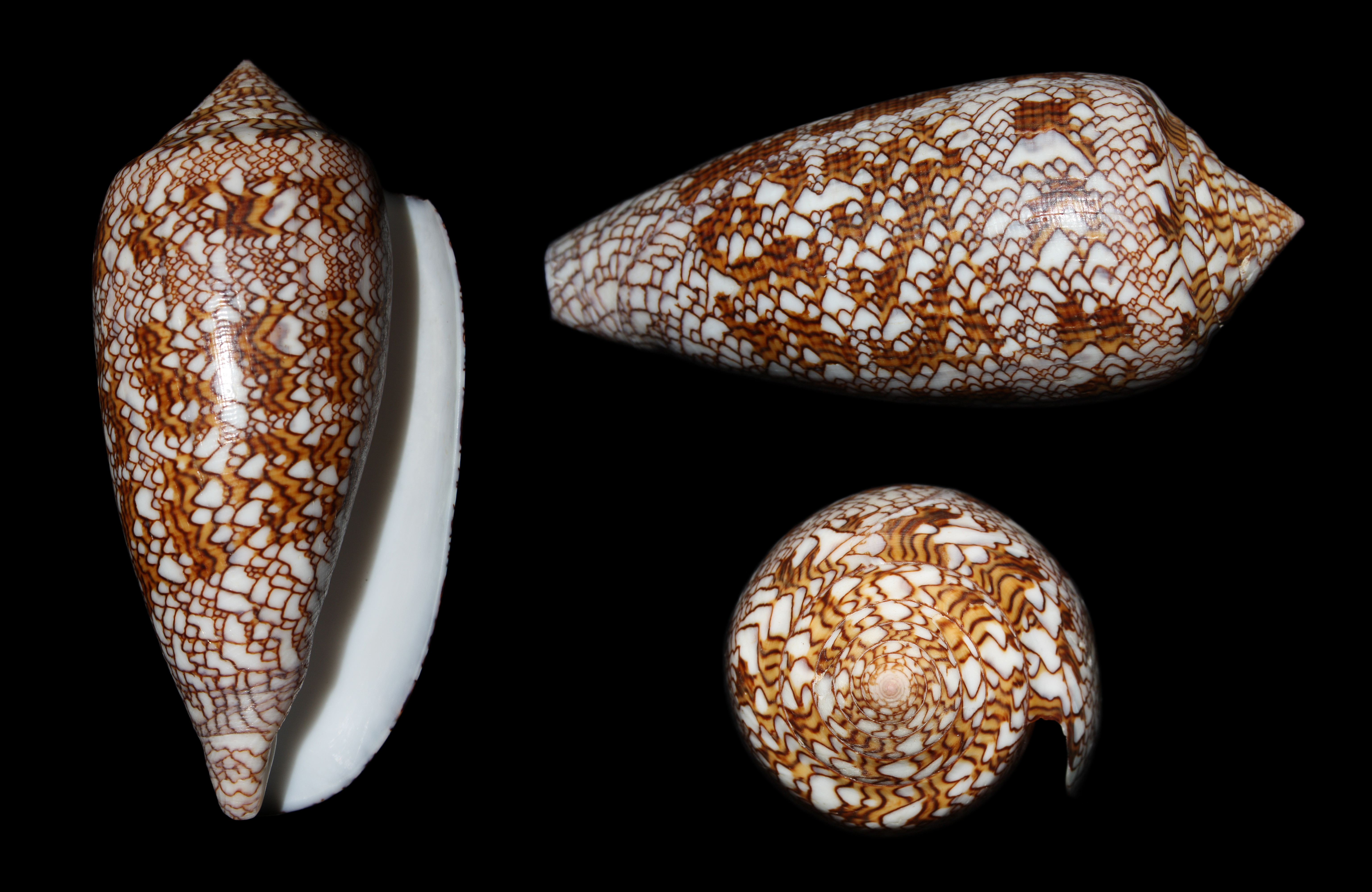 Conus textile textile Linnaeus, 1758. also called: Cylinder textile textile. Shell of a very common species, but one of the most beautiful.